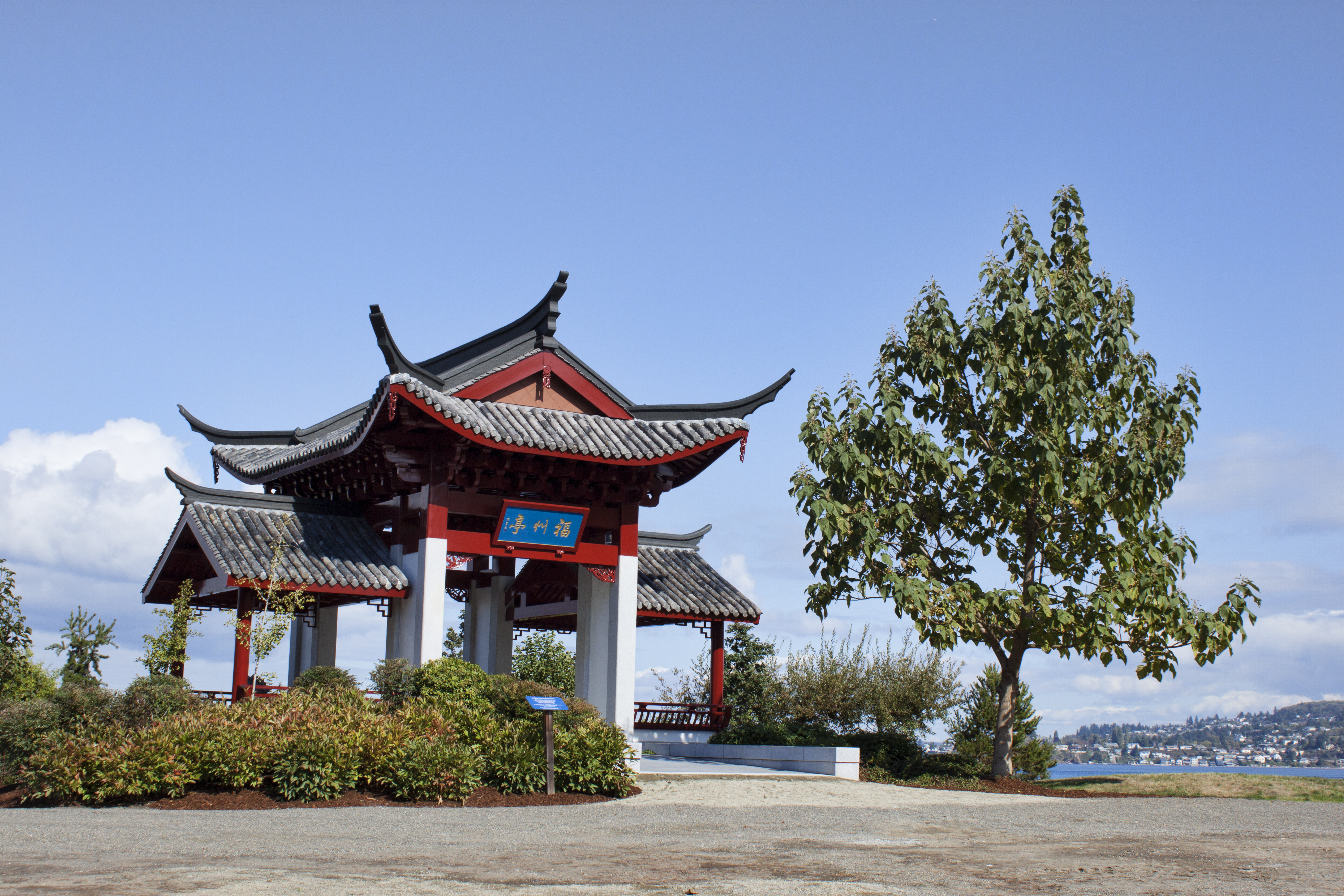 Chinese Garden and Reconciliation Park 1741 N. Schuster Parkway Tacoma, WA 98403